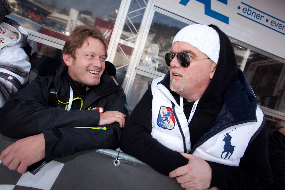 Andy Wernig and DJ Ötzi